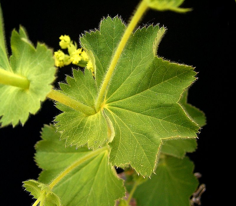 Description: Alchemilla mollis Source: self-made Date: created 10. Jun. 2006 Author: Frank Vincentz Permission: GFDL (self made)